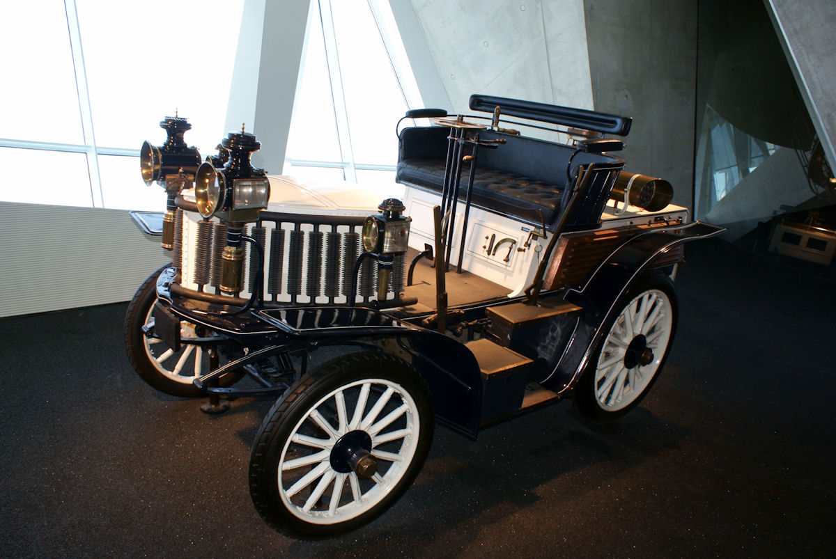 Benz 14 HP racing car of 1900 in the Mercedes-Benz Museum.